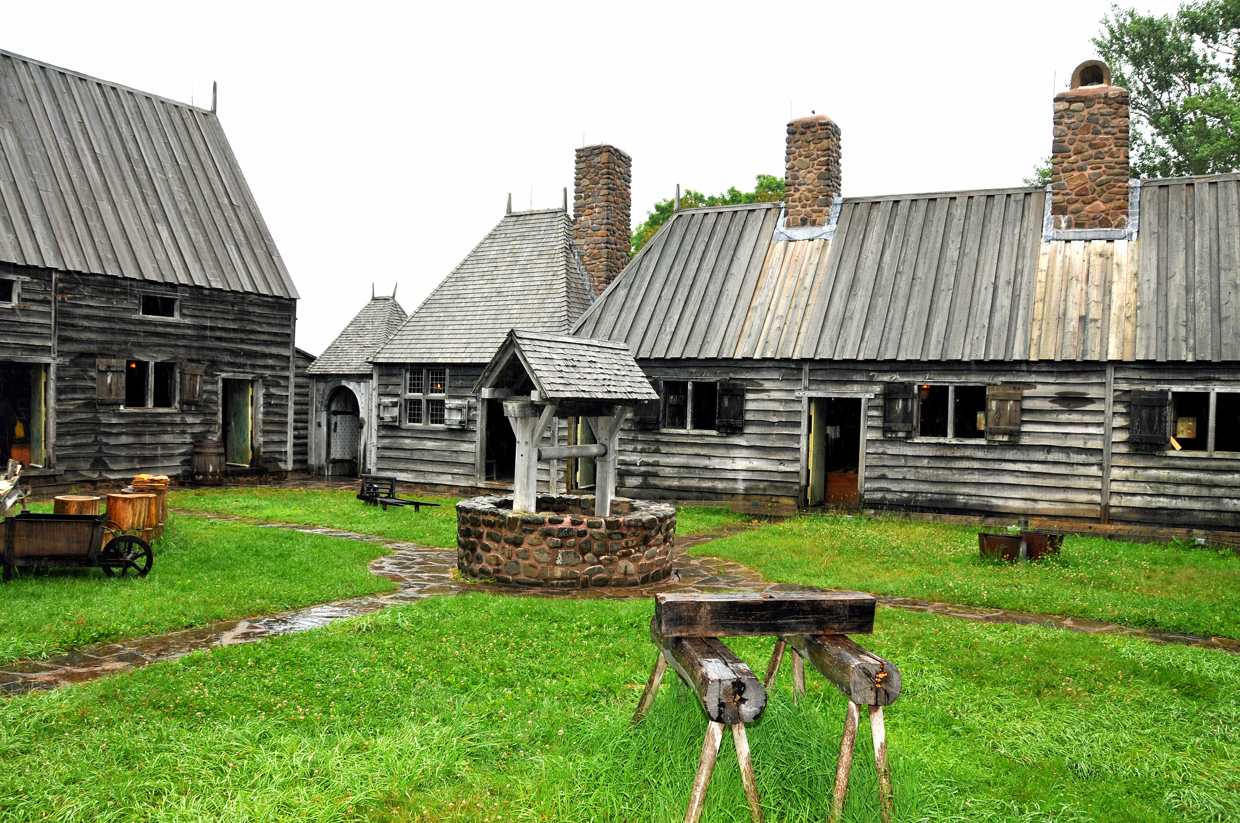 PLEASE, no multi invitations in your comments. DO NOT FEEL YOU HAVE TO COMMENT.Thanks. Courtyard as seen from the gentleman's rooms, gateway is in the left corner.